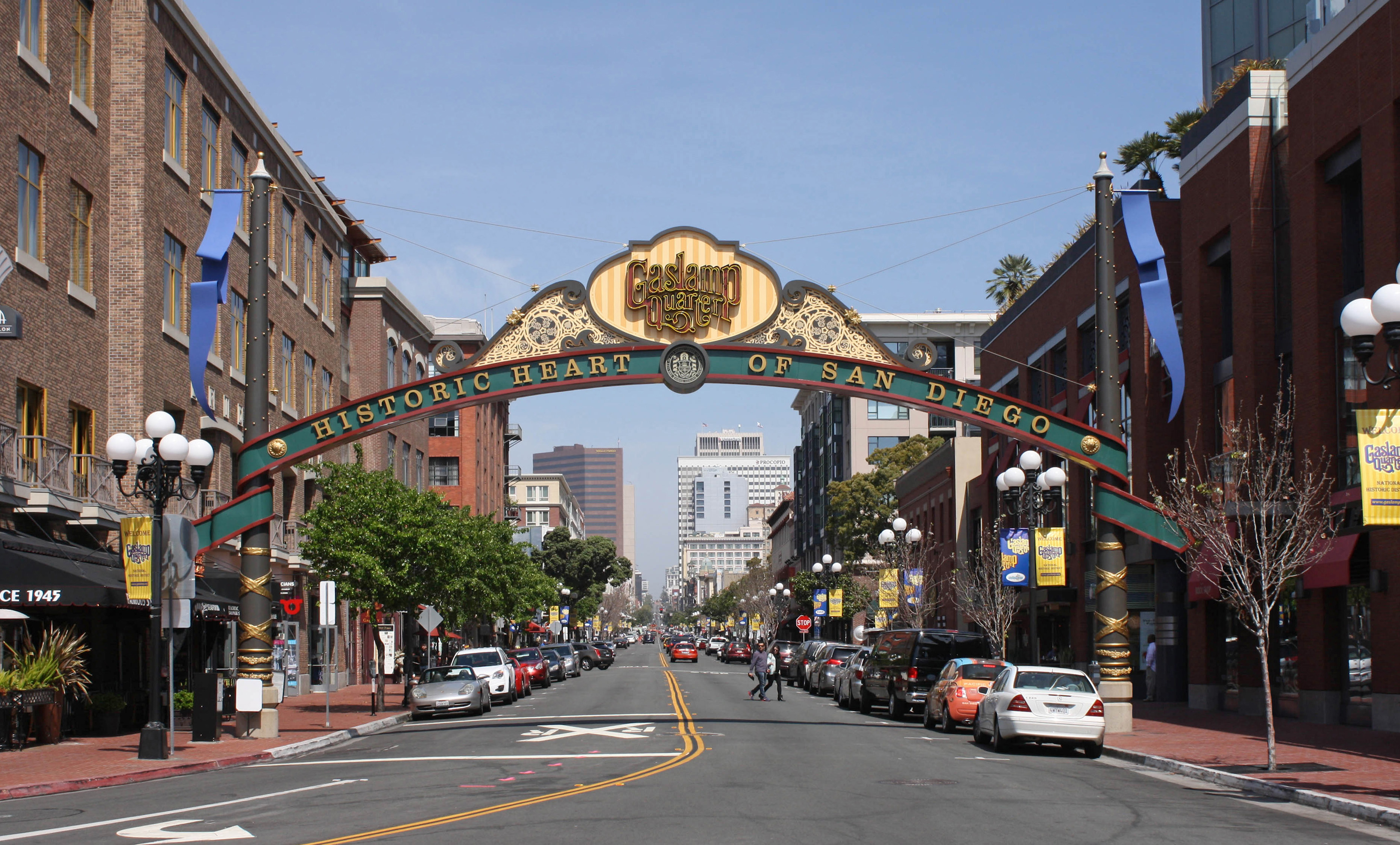 Gaslamp Quarter sign on the 5th Avenue, San Diego, California